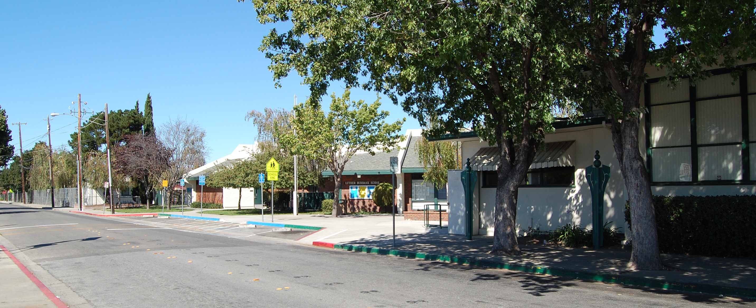 Luther Burbank School at 4 Wabash Av. off West San Carlos. Images may have been altered using filters or camera settings. Software may have been used to adjust image attributes such as image file format, image size, composition, contrast, or colors.